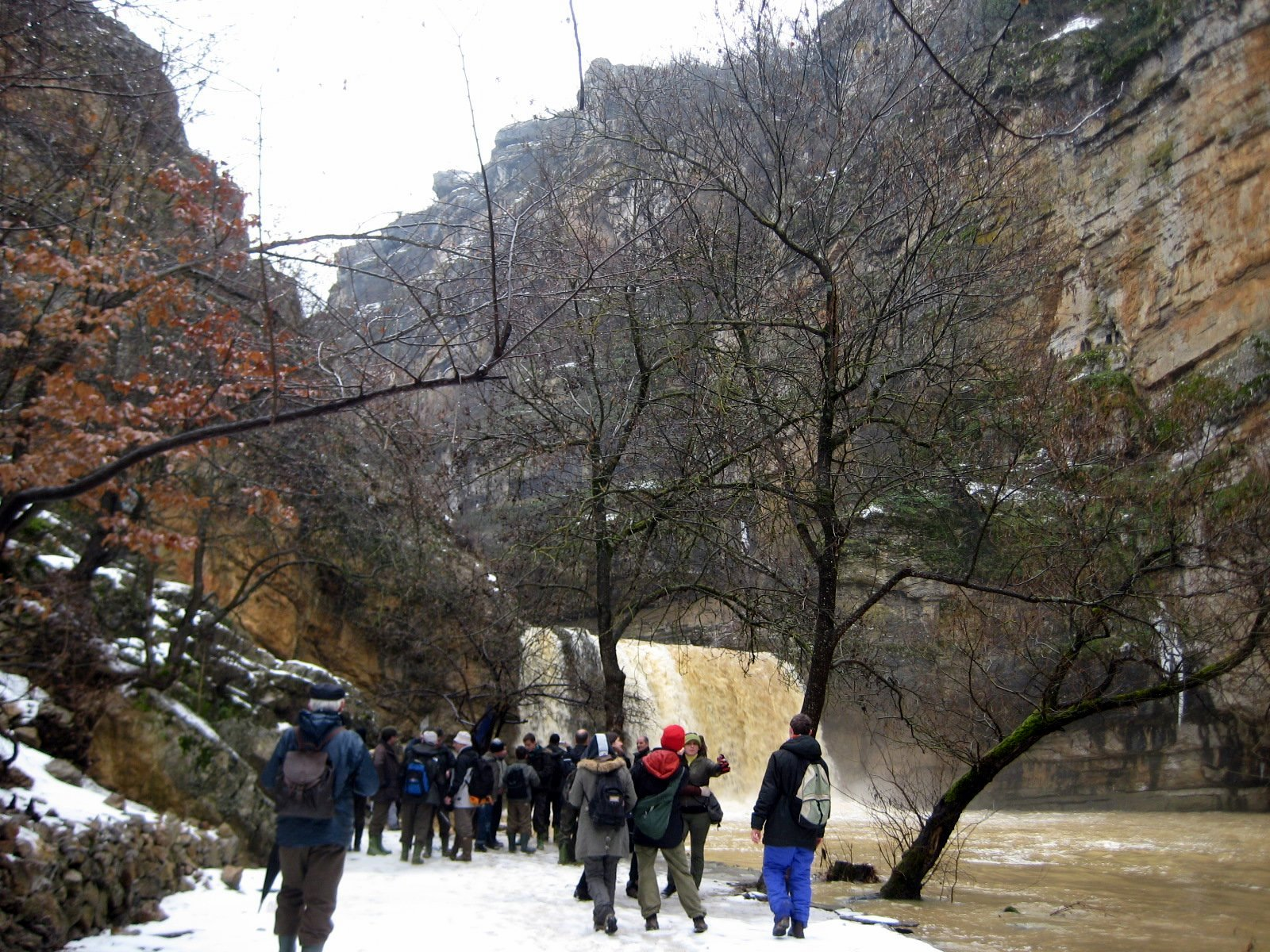 Photos from Arianit Dobroshi for Wikimedia Commons. Original Filename "arianit/Mirusha Waterfalls Winter Hike/image59.jpg"